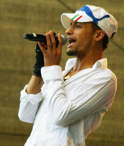 Mark Medlock in Vienna, 2008